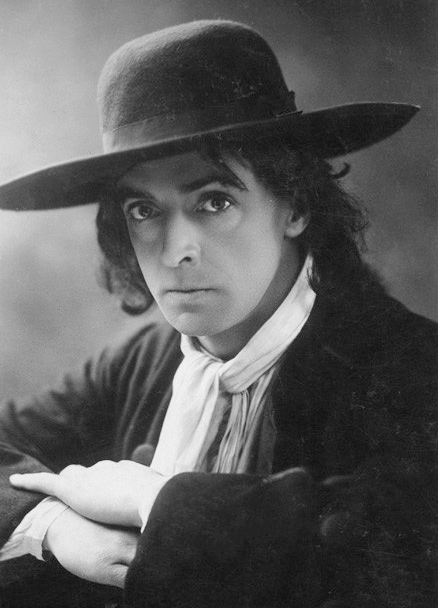 Sir John Martin-Harvey